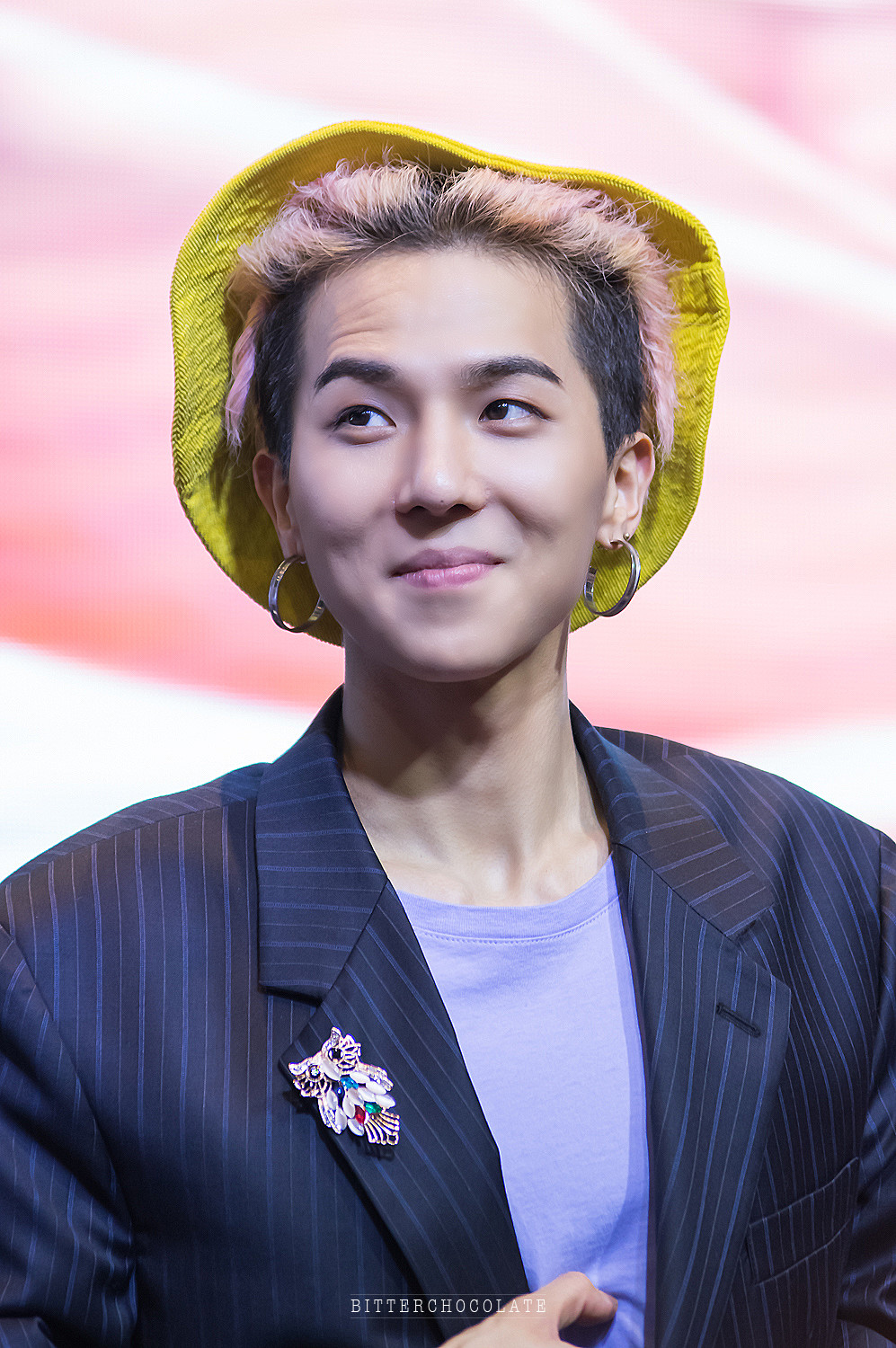 Mino at Winner's fansign event in Yeouido on April 15, 2018.